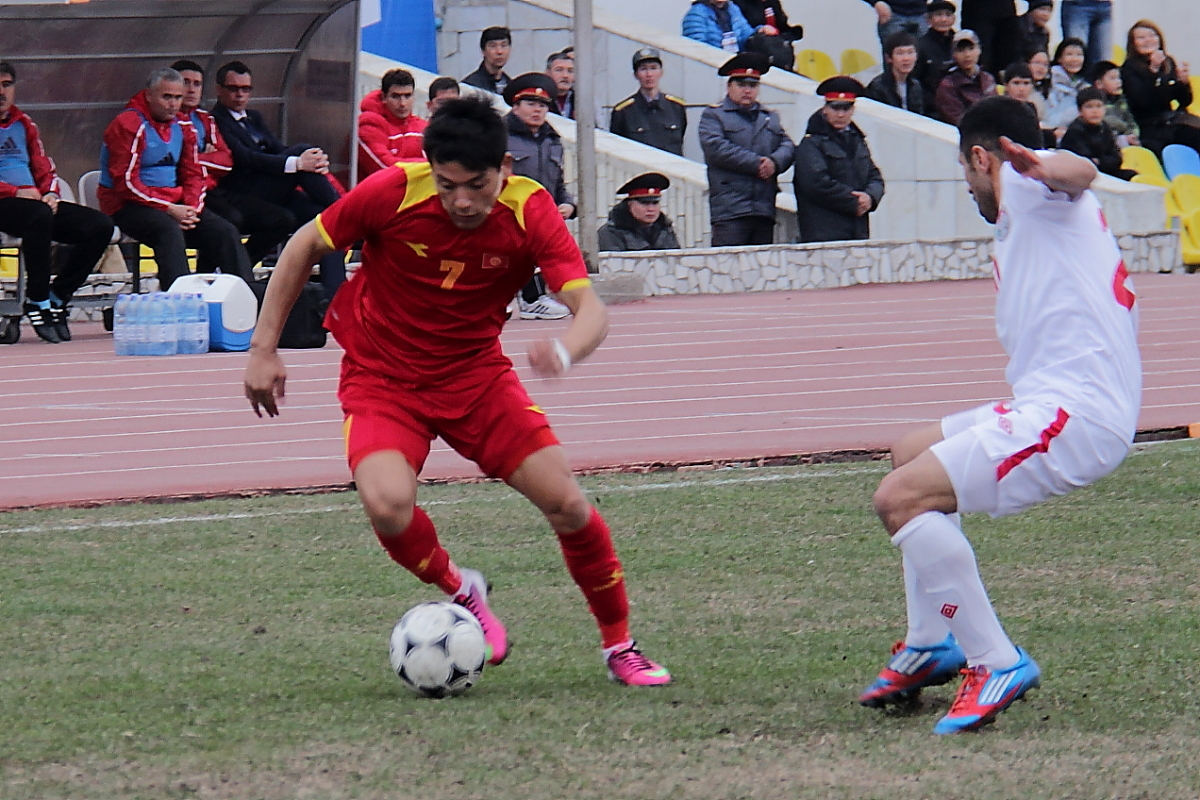 Kyrgyzstan national football team midfielder Kayumjan Sharipov (left) in action during the 2014 AFC Challenge Cup qualification match against Tajikistan.